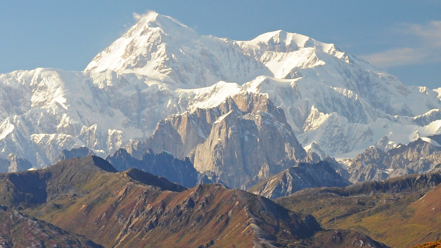 The Moose's Tooth and Denali seen from Kesugi Ridge. Denali State Park, Alaska